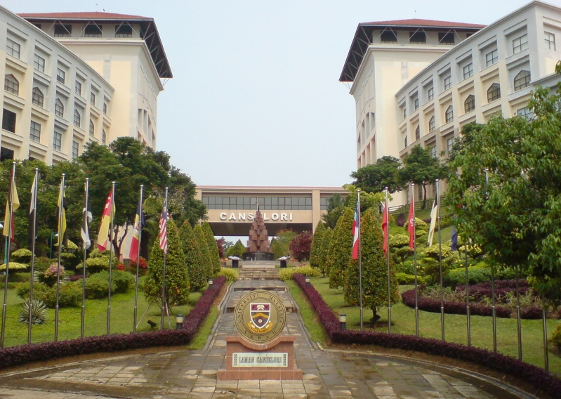 Chancellory Building, Universiti Malaysia Sabah